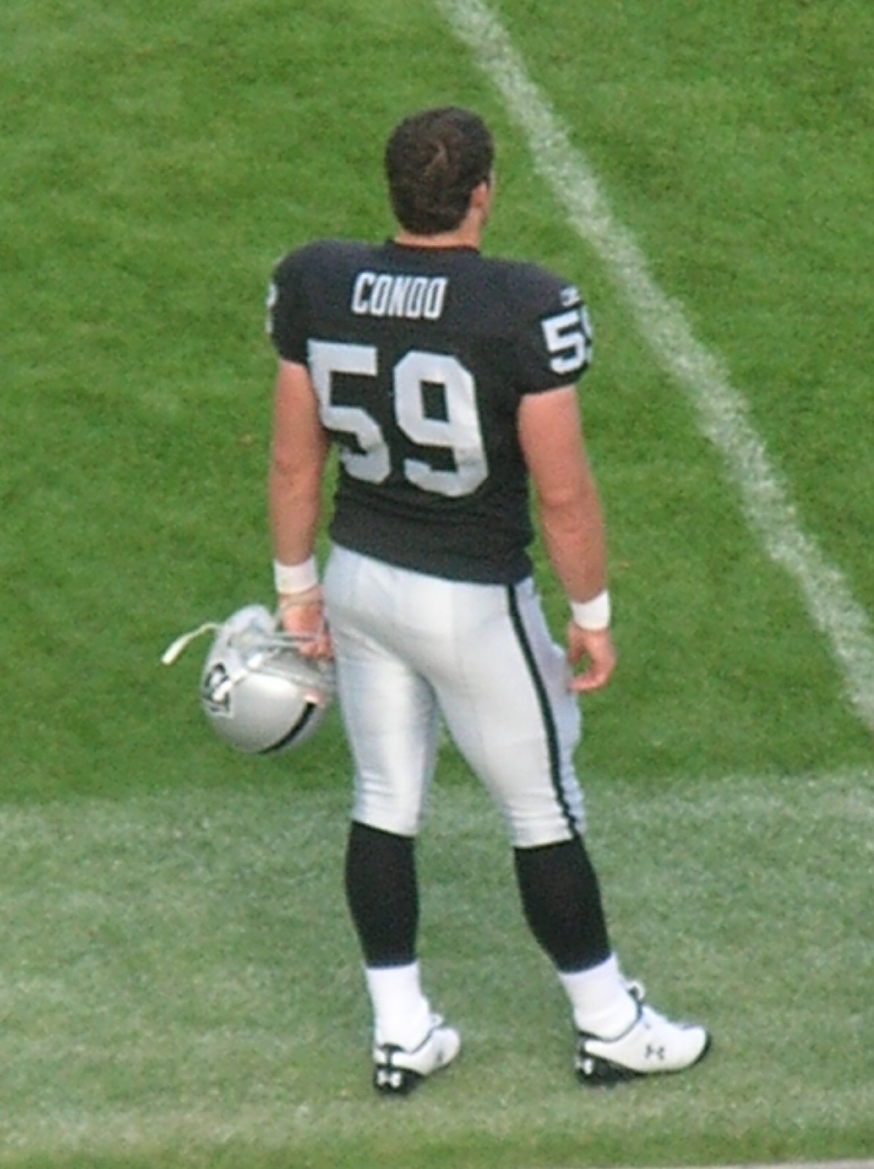 Oakland Raiders long snapper Jon Condo at a home game against the Atlanta Falcons. The Falcons won 24-0.